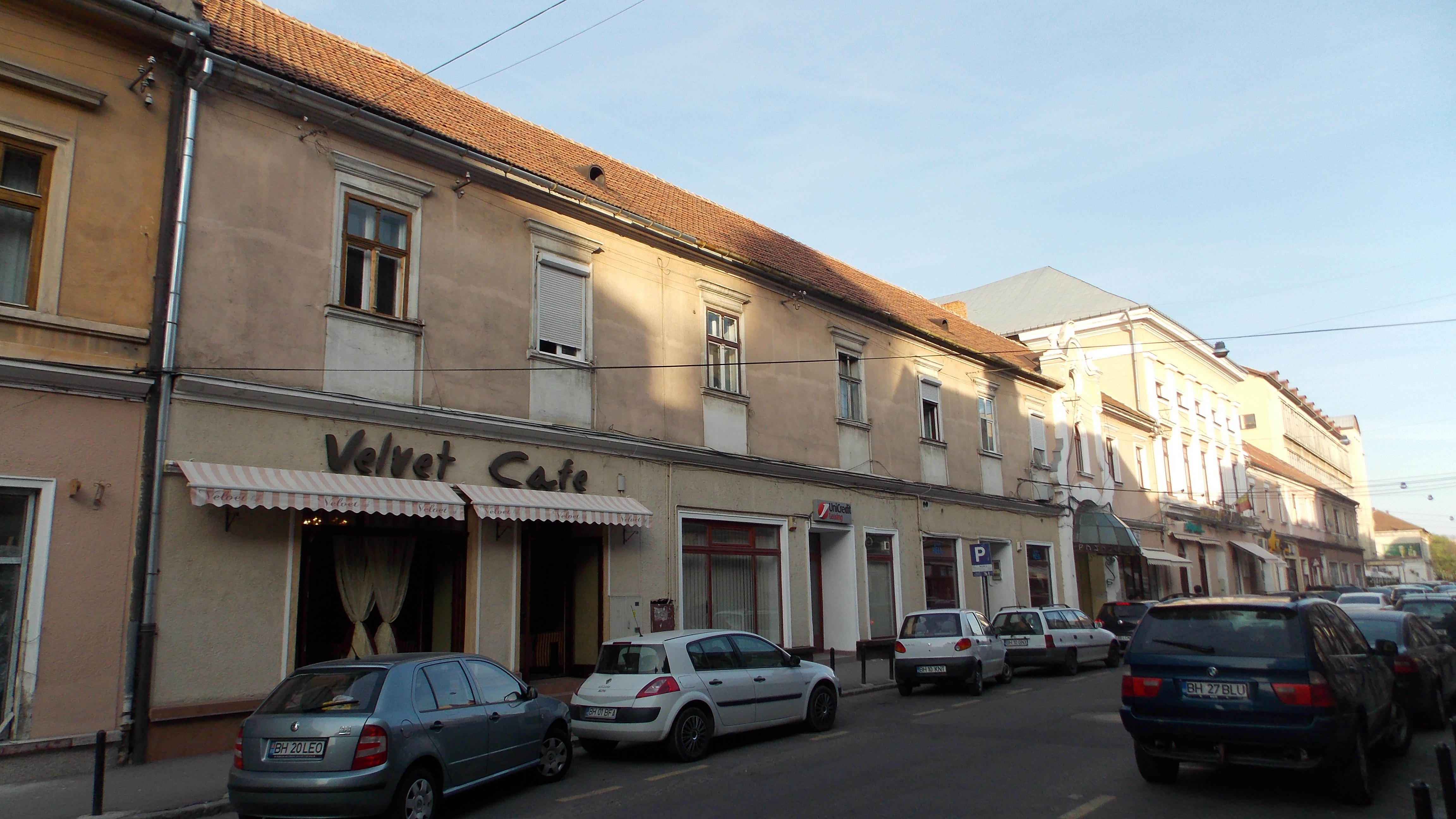 "Green tree" inn - Oradea